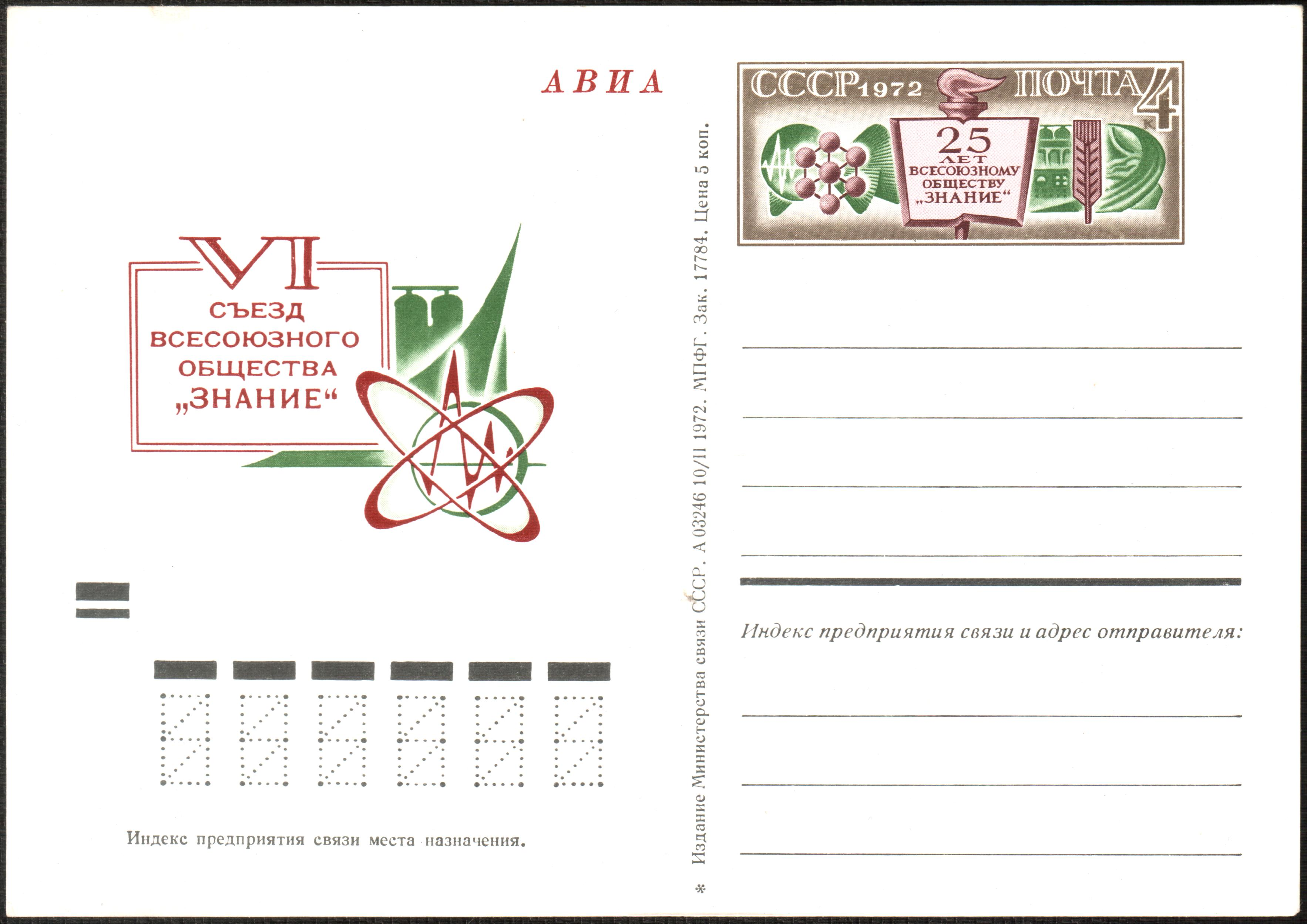 USSR, 1972. Postal card with the commemorative stamp. “25th anniversary of All-Union Society 'Znanie' ('Knowledge') / VI Congress of the society” (CPA Catalogue №5). Stamp: Sign of All-Union Society “Znanie” (“Knowledge”); symbolic image of various fields of knowledge. Illustration: A commemorative text, atomic model, contour the monument “Space” in Moscow. Design: R. Strelnikov.